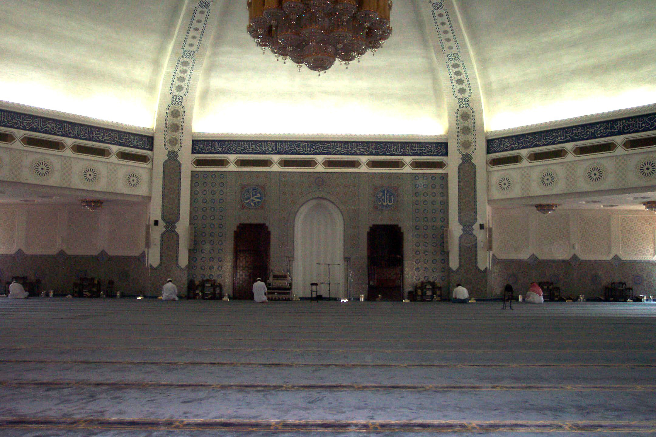 Hassan_Enany_Mosque-Jeddah-KSA-Interior